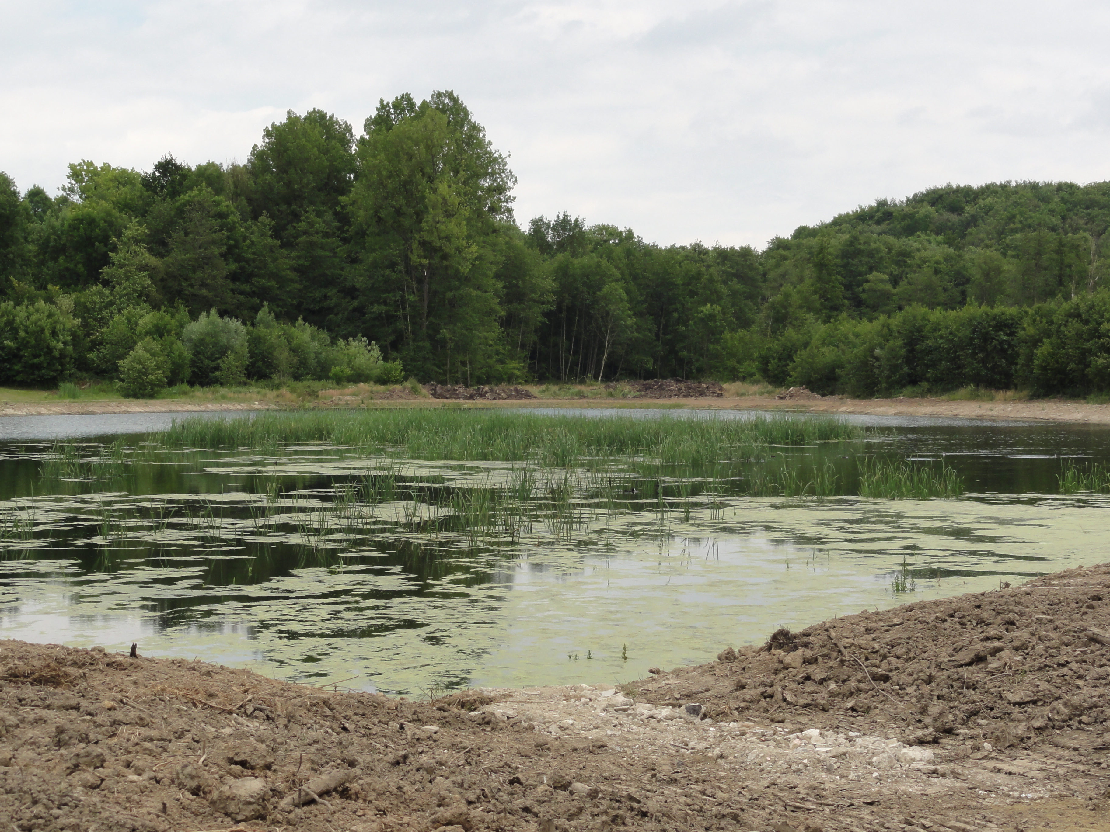 Montgobert (Aisne) étang